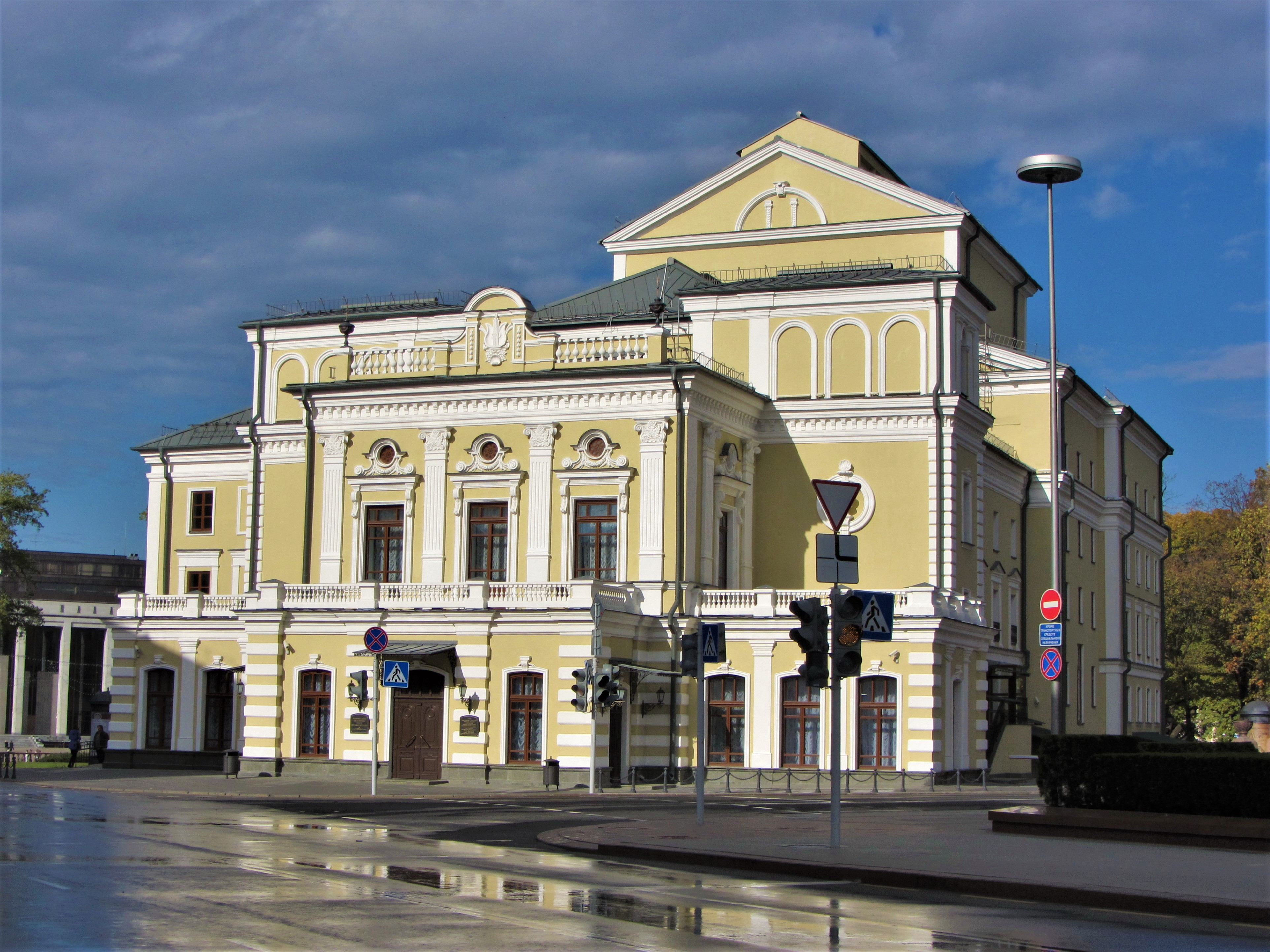 National academic theater of a name of Janka Kupala Minsk, Enhieĺsa street 7